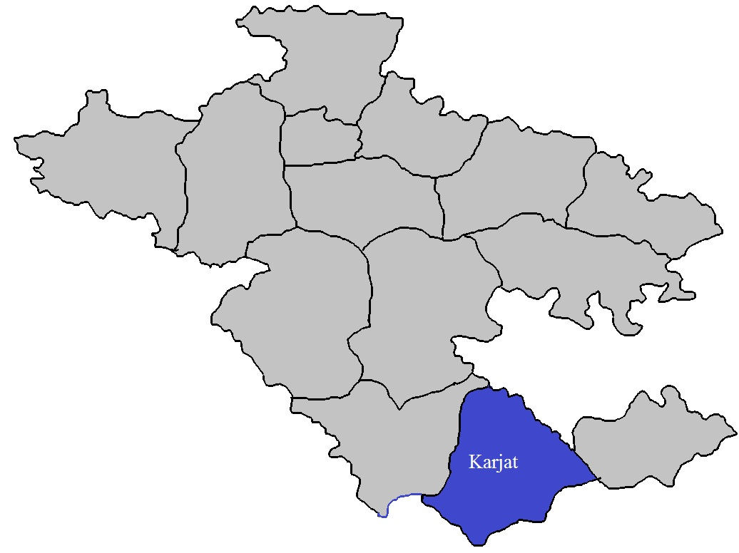 Karjat Tehsil in Ahmednagar District